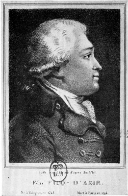 Félix Vicq-d'Azyr, French anatomist and scientist.